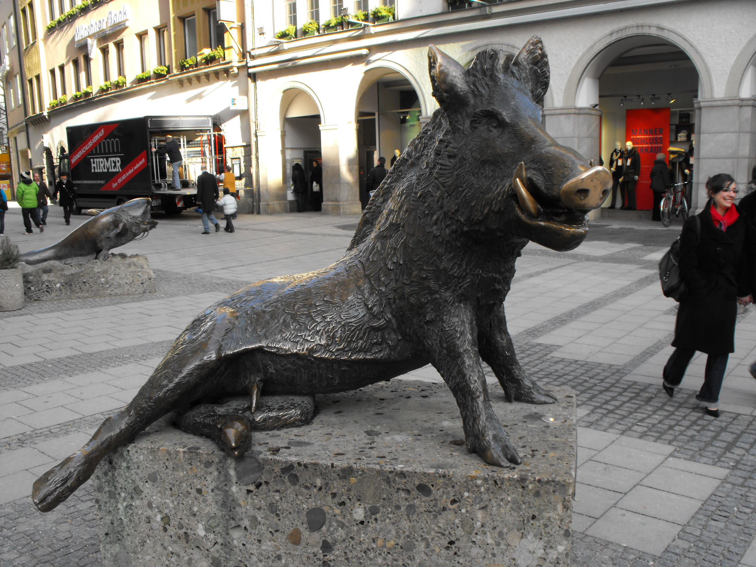 Wild Boar statue, Munich, Germany